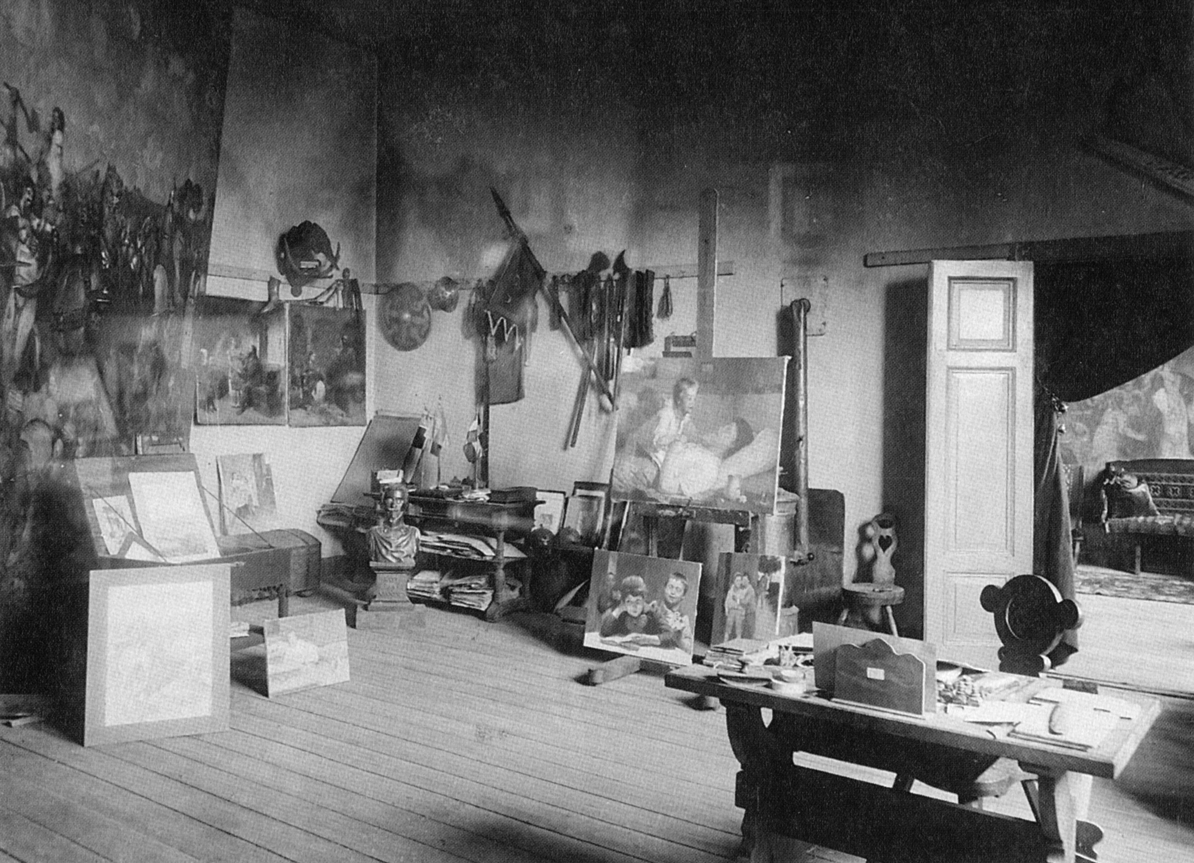 Photo of Swedish painter August Malmström's studio